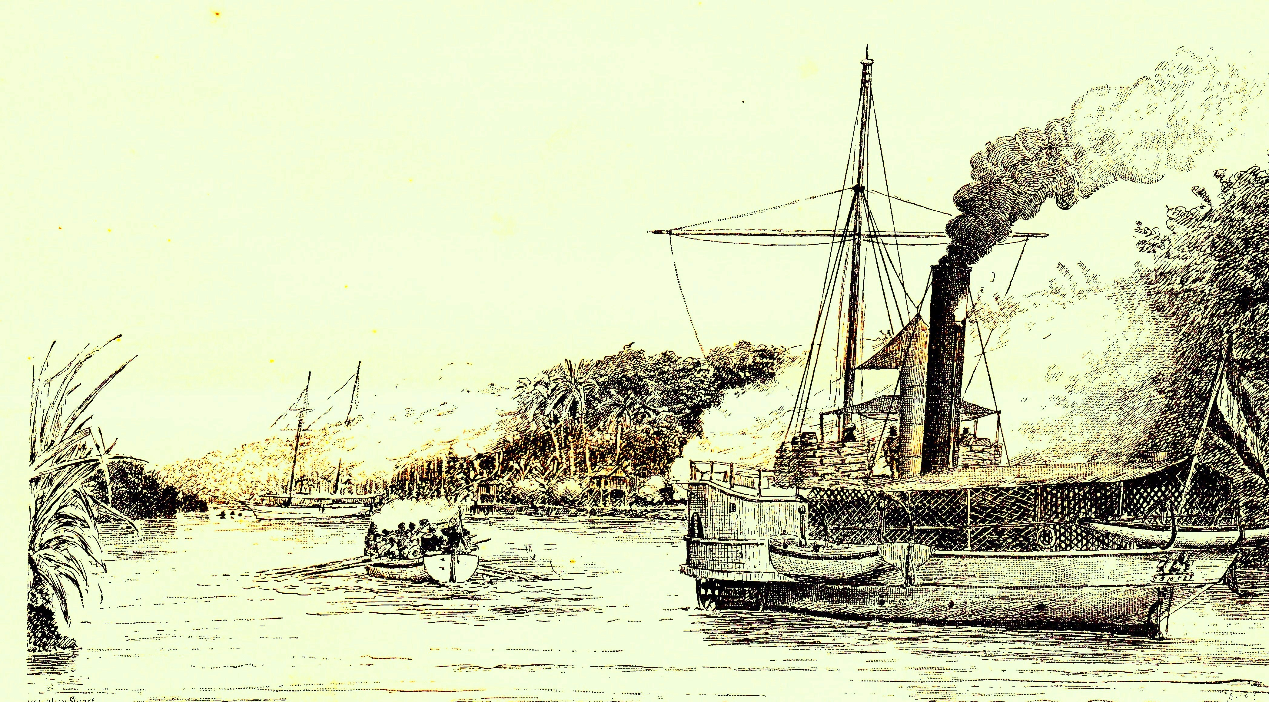 Gevecht van de Sampit en de gewapende sloep